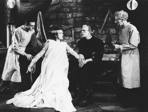 A screenshot from Bride of Frankenstein